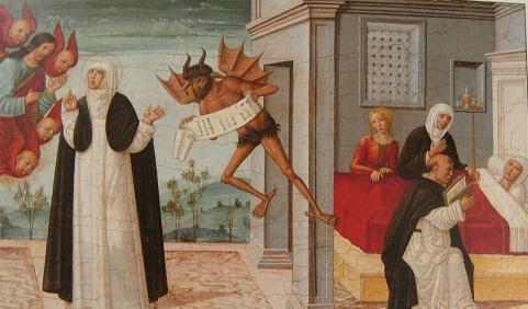 Catherine obtient du Christ que soeur Palmerina soit libérée avant de mourir de son pacte avec le diable, Girolamo di Benvenutto (1470-1524), Cambridge (Ma), Fogg Art Museum // Catherine gets sister of Christ Palmerín be released before dying of his pact with the devil